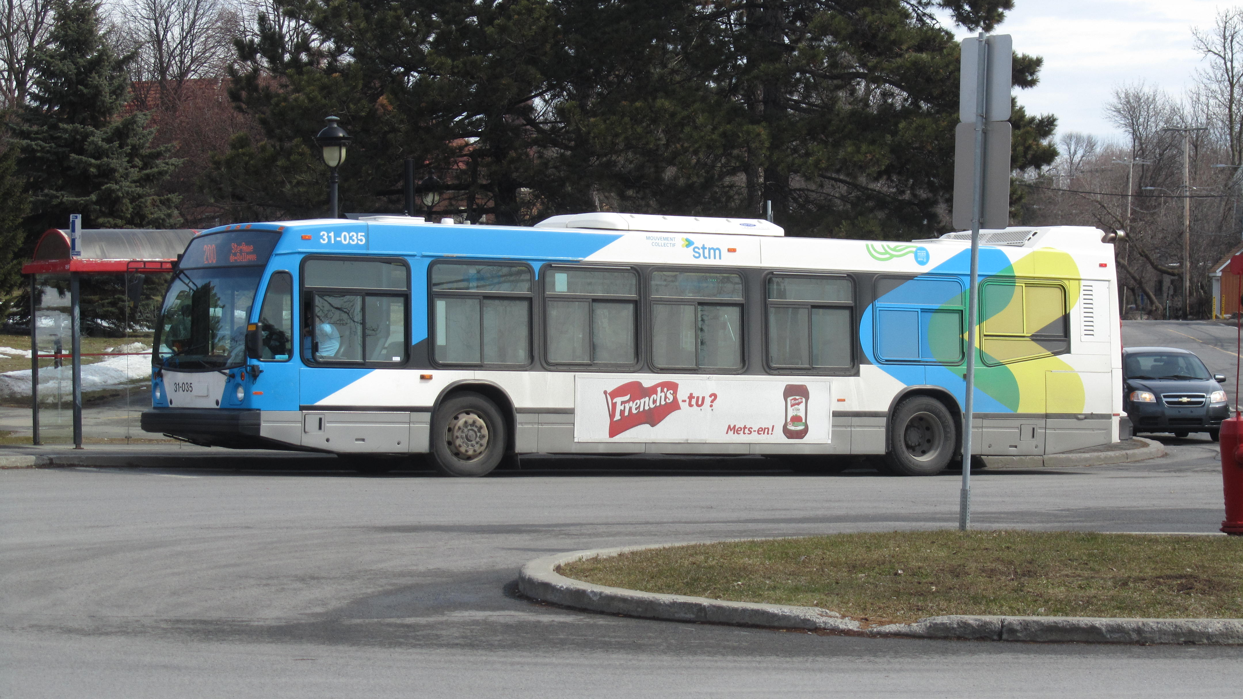 A photo of a Société transport de Montréal Nova Bus third generation in the island of Montréal in Sainte-Anne-de-Bellevue doing the 200 route.